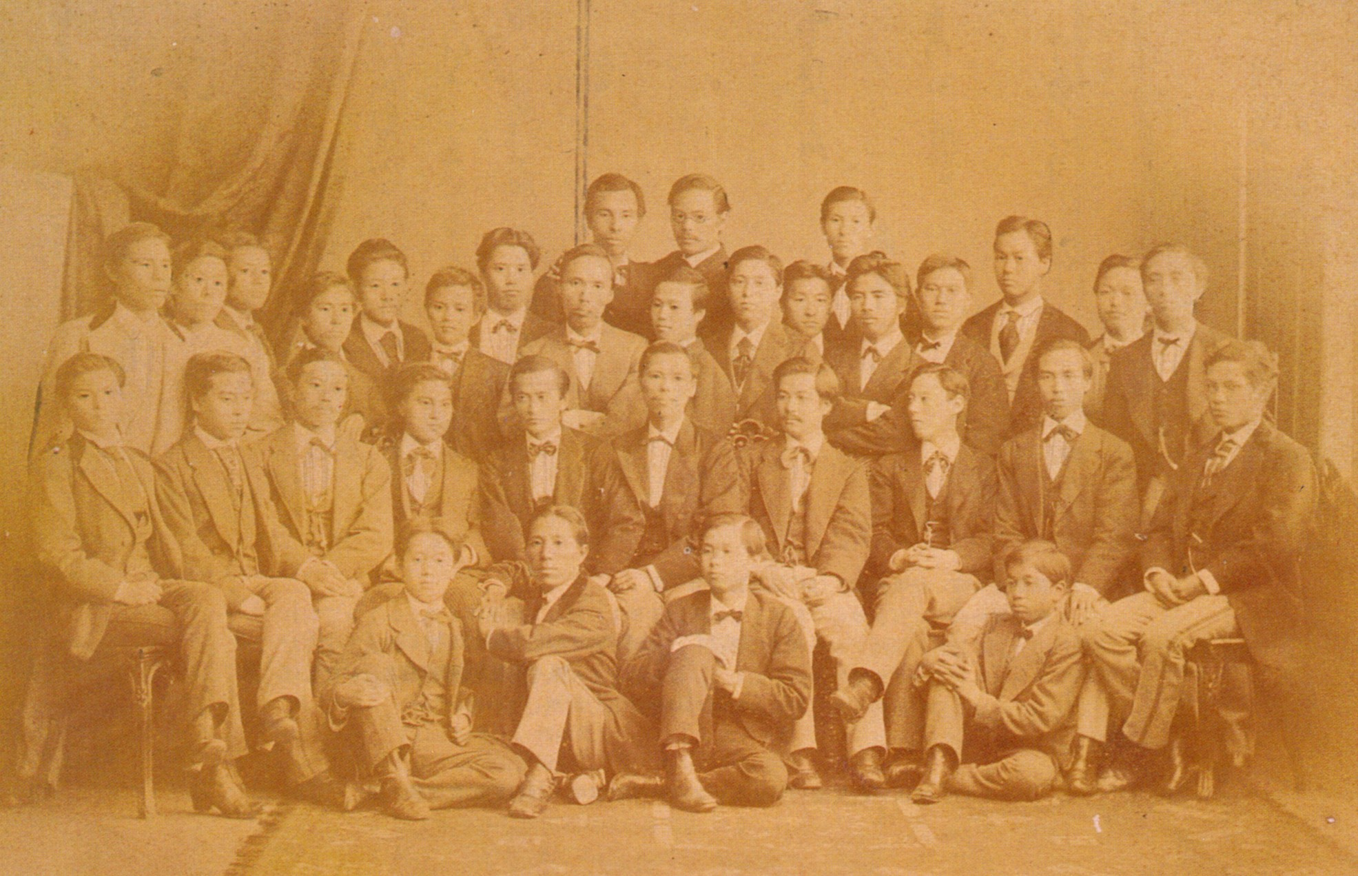 Japanese Students at Berlin